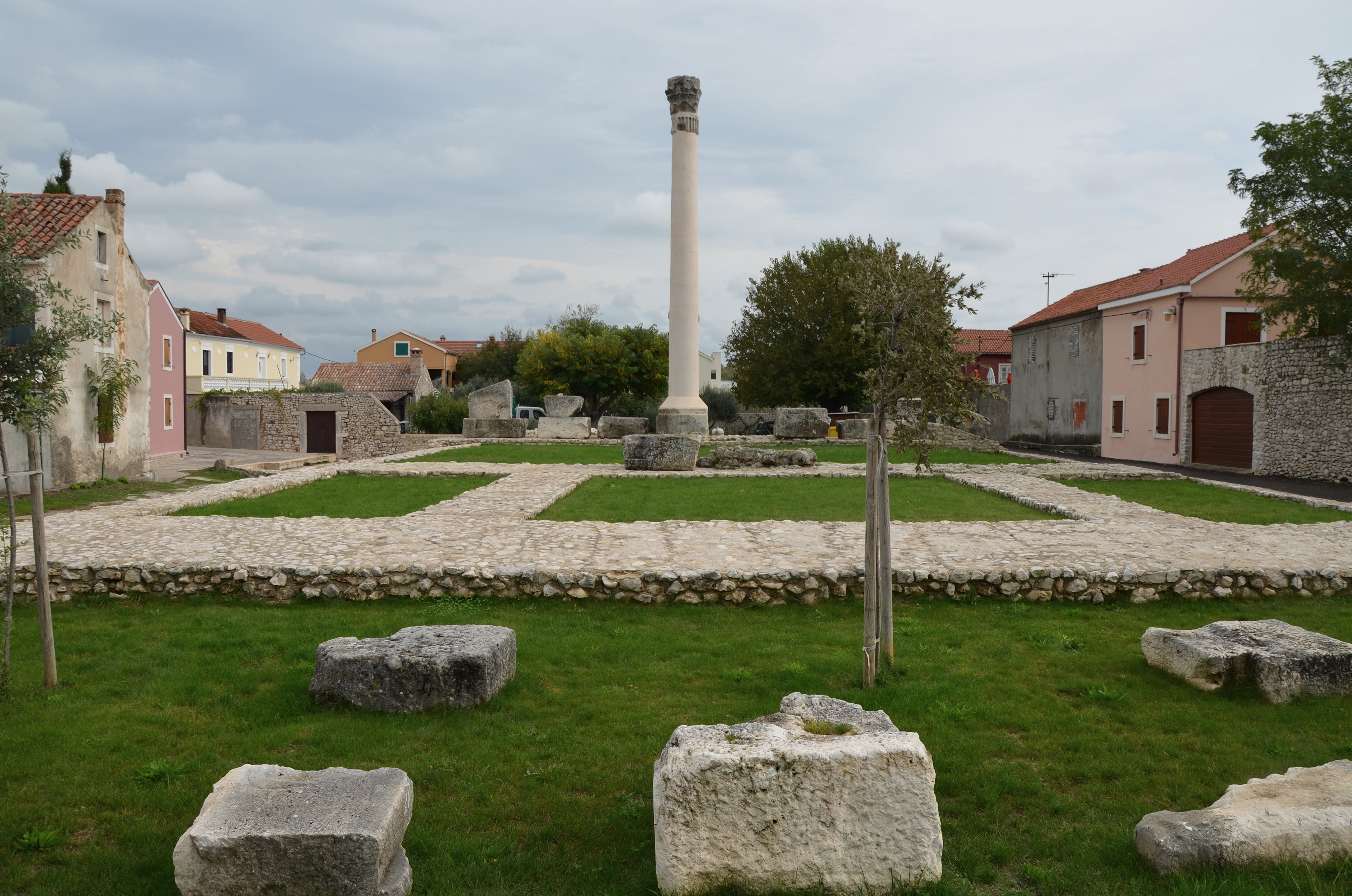 The Capitolium, Aenona (Nin), Croatia